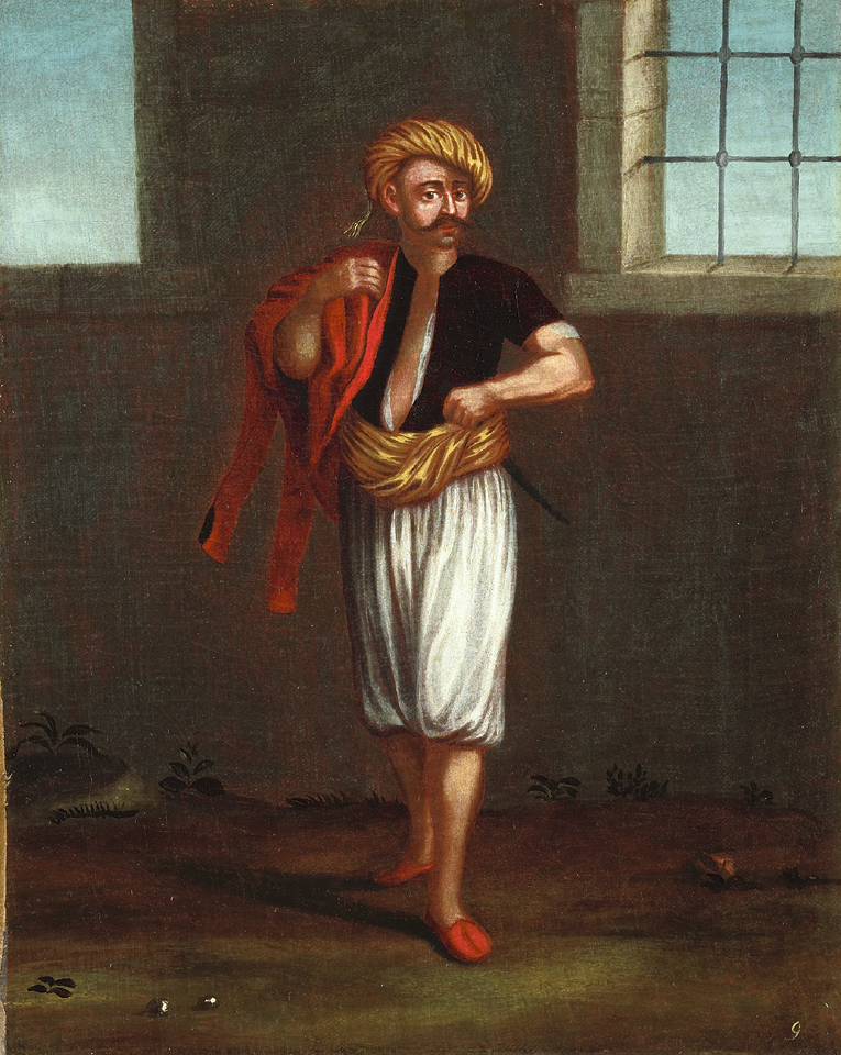 One of Khalil's Patrona insurgents. Standing, full-length, for a window with bars. Part of a series of paintings with Turkish subjects from Turkey to the Netherlands by Cornelis Calkoen the ambassador and his cousin Nicholas in 1817 gelegateerd to the Executive Board of the Levant Schenardi Commerce in Amsterdam.